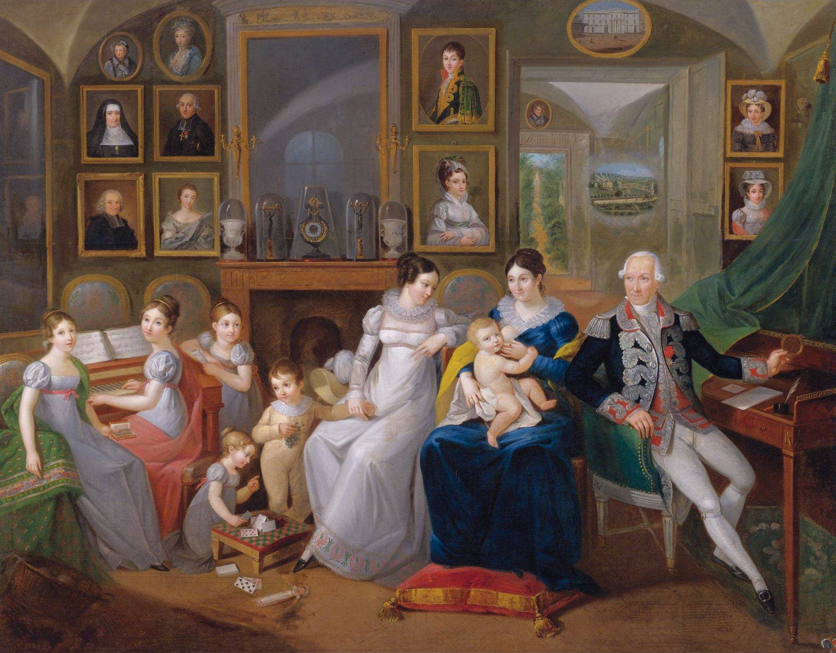 Gabriel Joseph de Froment, Baron de Castille (1747 - 1826) and his wife Princess Hermine Aline Dorothée de Rohan (1785 - 1843) with their family